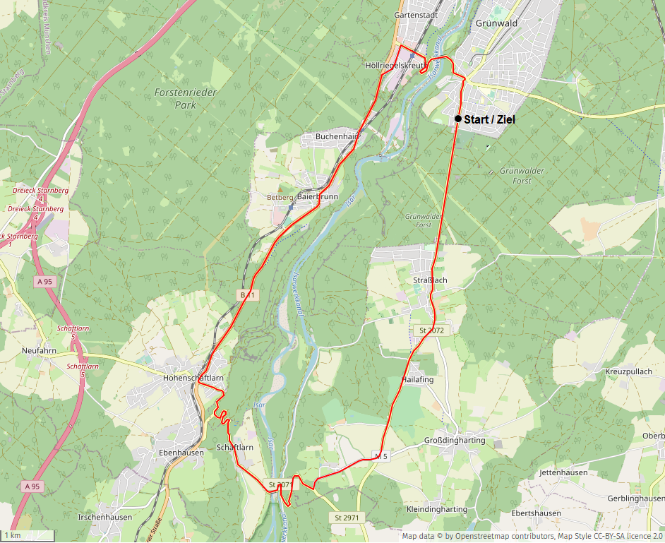 Map of the Grünwald-RundkursThis map of Grünwald was created from OpenStreetMap project data, collected by the community. This map may be incomplete, and may contain errors. Don't rely solely on it for navigation.